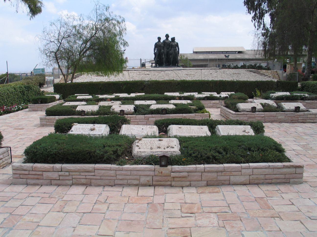 Description: Independence War Memorial in Negba, Israel. Source: Photo by me, User:Bukvoed.